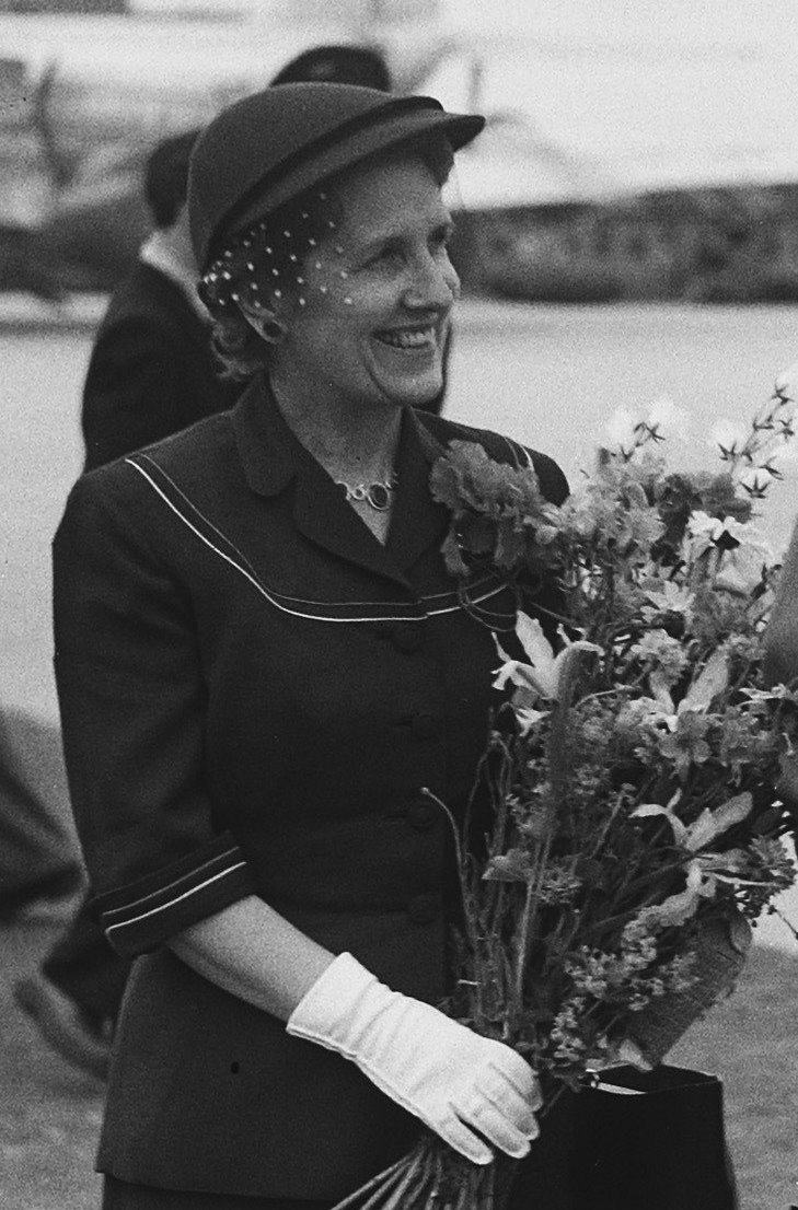 Lillian Bounds Disney at Schiphol Airport, 1951